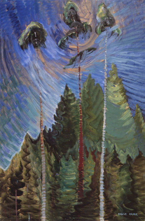 Odds and Ends